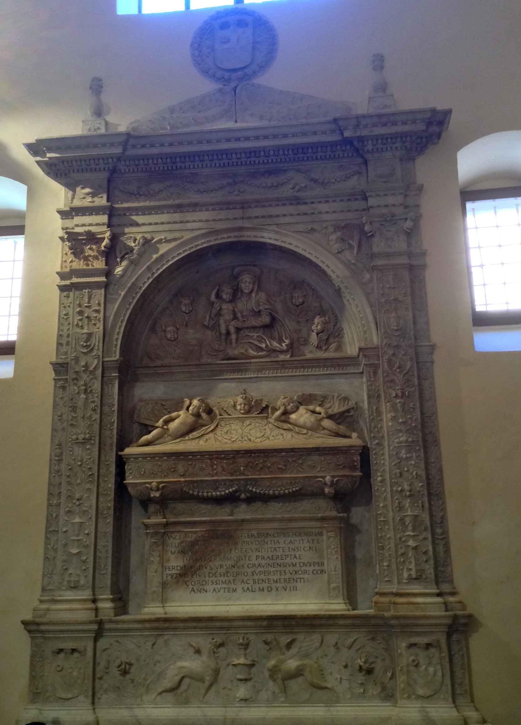 Mausoleum of Angela Branai (Granai) Kastrioti (+1518), wife of Ferdinando Orsini, 5th Duke of Gravina in Puglia